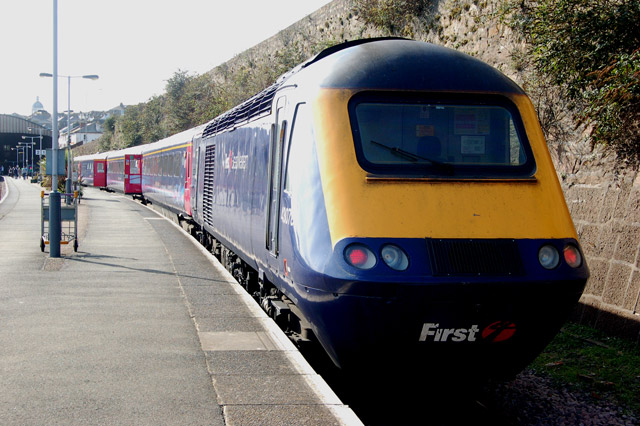 A First Great Western HST, with power car number 43078 leading, awaits departure from Penzance on the 2pm service to London Paddington.